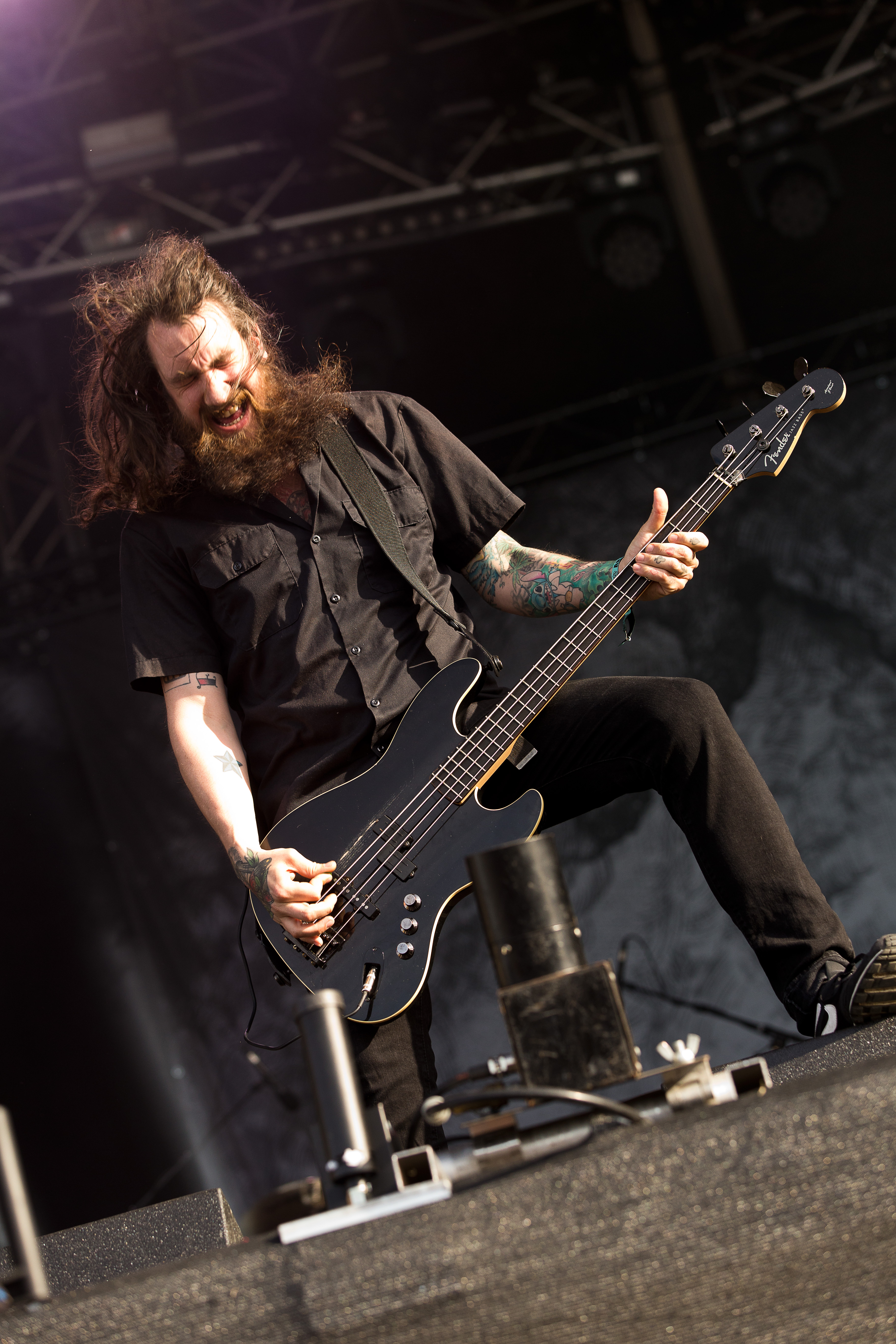 The Swedish melodic death metal band Soilwork at the Rockharz Open Air 2016 in Ballenstedt/Germany.